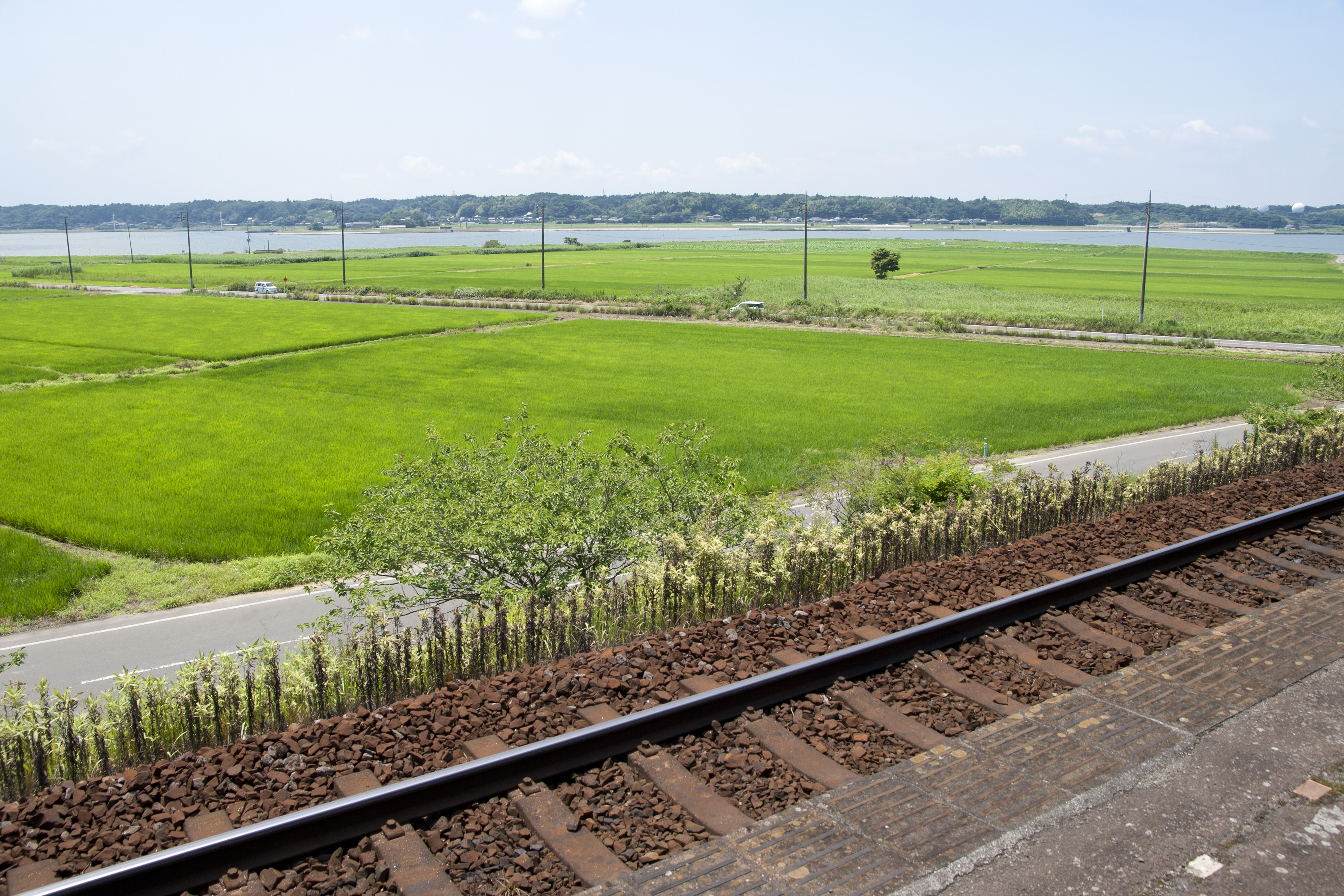 Kitaura-Kohan Station in Hokota City, Ibaraki Prefecture, Japan